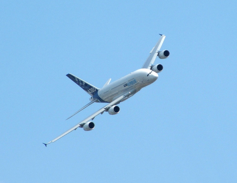 Banked turn, Farnborough 2006